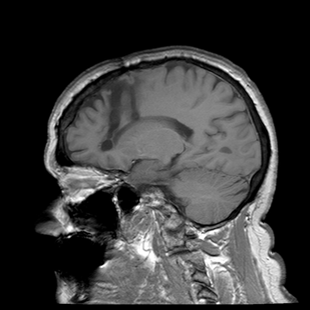 65-year old man with history of OCD treatment in 1970s. MRI T1 image shows bifrontal areas of encephalomalacia extending down to and involving the corpus callosum are in keeping with the known history of frontal leucotomies.